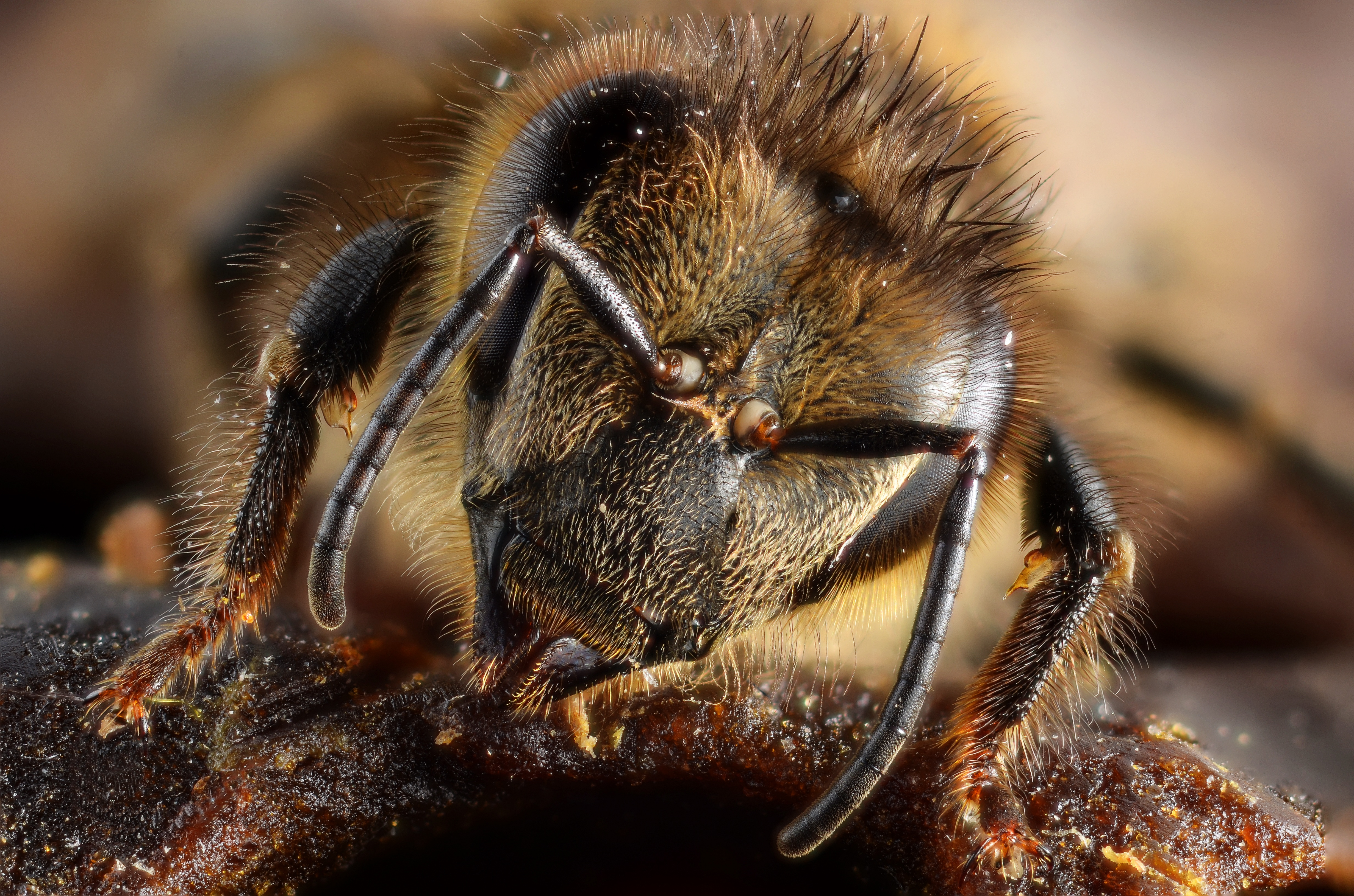 Honey bee (Apis melifera) portrait. View it full size here Scale : head width = 4 mm Technical settings : - Focus stack of 18 images - Micro-Nikkor AF 60mm f/2.8D at f/5.6 on bellow